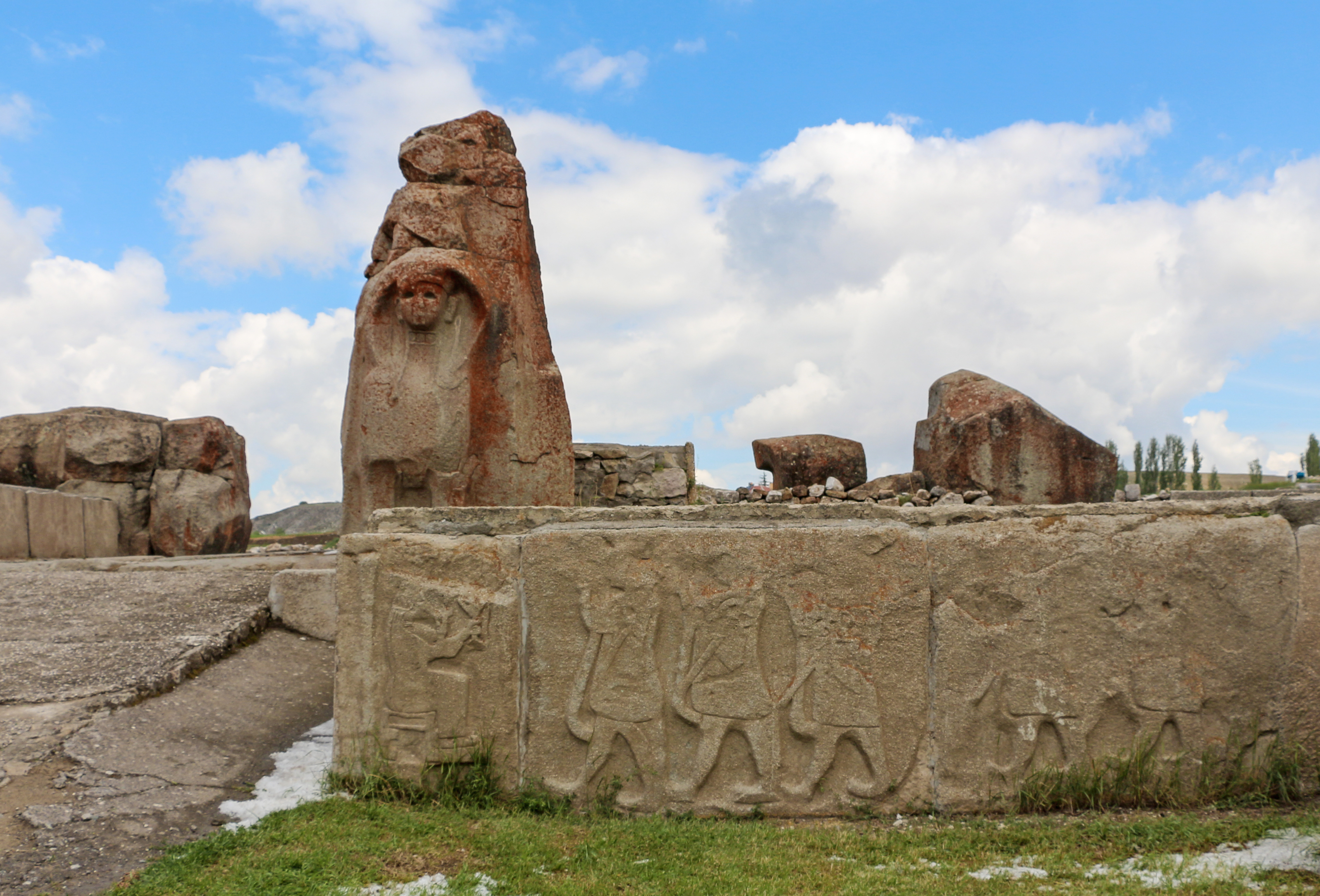 Orthostates at east of the Sphinx Gate of Alaca Höyük, Turkey. We can see a relief of the Hittite goddess Arinna at the left.